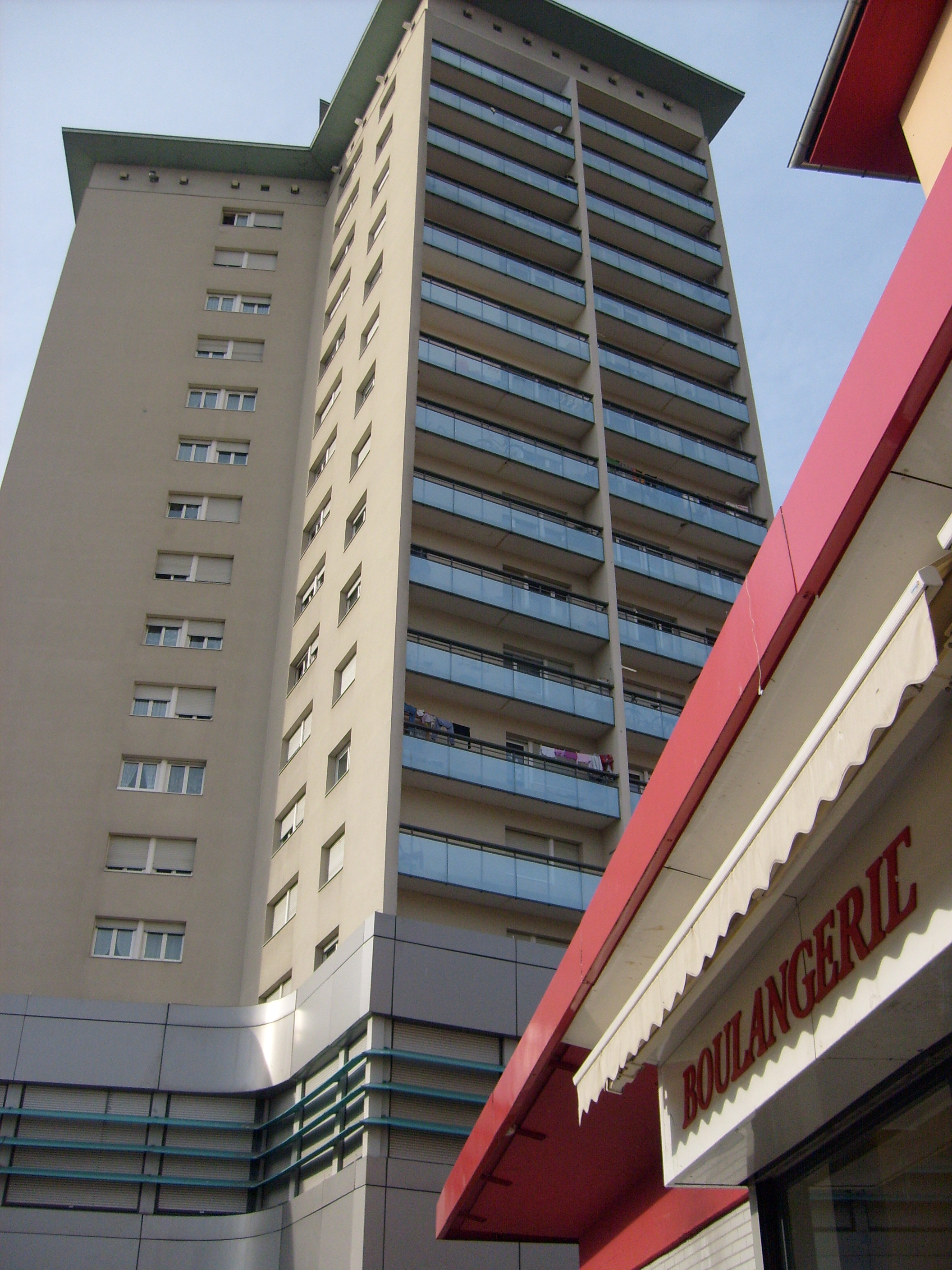 tour schwab -cité de l'ill ,strasbourg ,alsace ,france